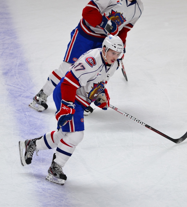 In a game between the Hamilton Bulldogs and the Syracuse Crunch at the Bell Centre of Montreal.